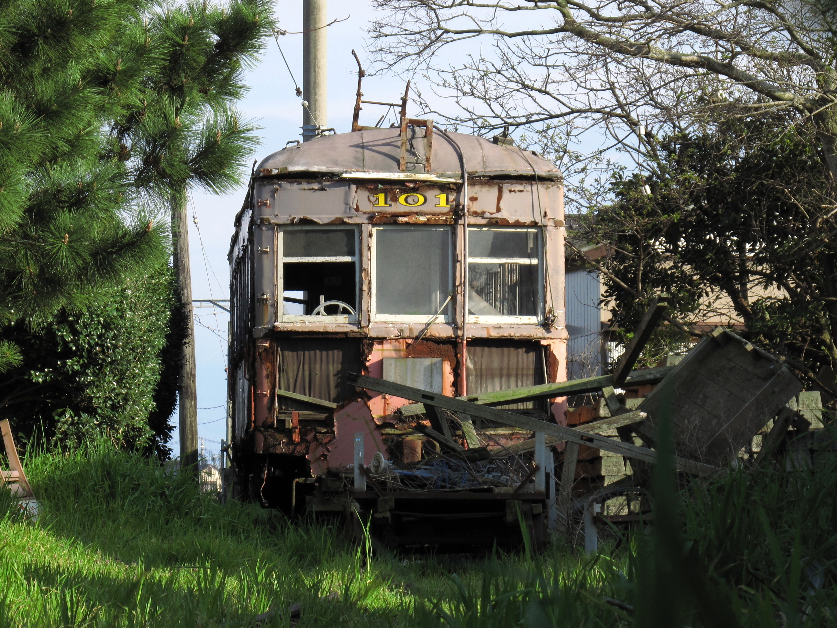 Choshi Electric Railway EMU car DeHa 101 dumped behind Kasagami-Kurohae Station